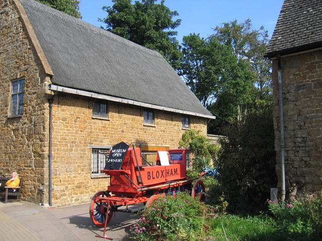 Bloxham Village Museum. This old fire appliance is advertising the village museum in the building behind just off Church Street .